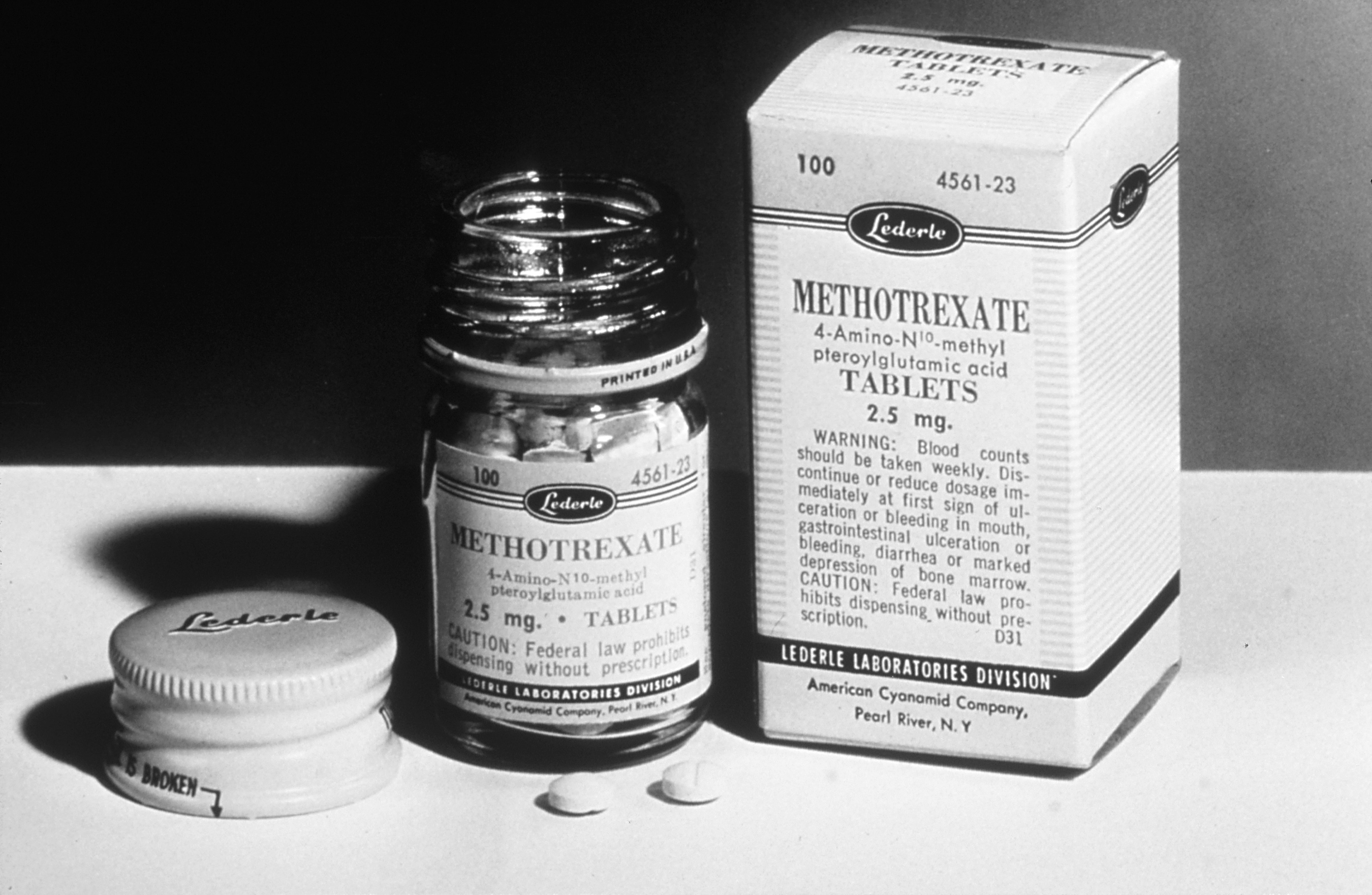 Title: Historical: Treatment: Methotrexate Description: Shows open bottle of methotrexate drug - one of the first chemotherapeutic drugs used in the early 1950's. Subjects (names): Topics/Categories: Historical -- Treatment Type: Black & White Slide Source: National Cancer Institute Author: Unknown photographer/artist AV Number: AV-0000-4363 Date Created: Unknown Date Added: 1/1/2001 Reuse Restrictions: None - This image is in the public domain and can be freely reused. Please credit the source and/or author listed above.